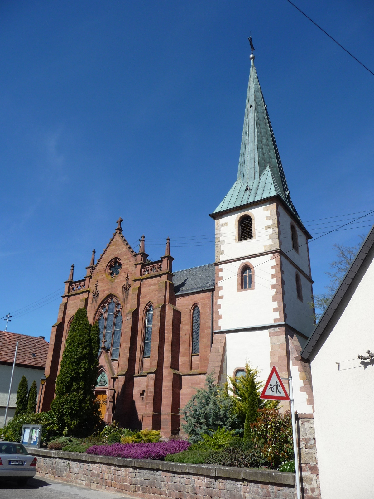 Duttweiler in Rhineland-Palatinate, Germany